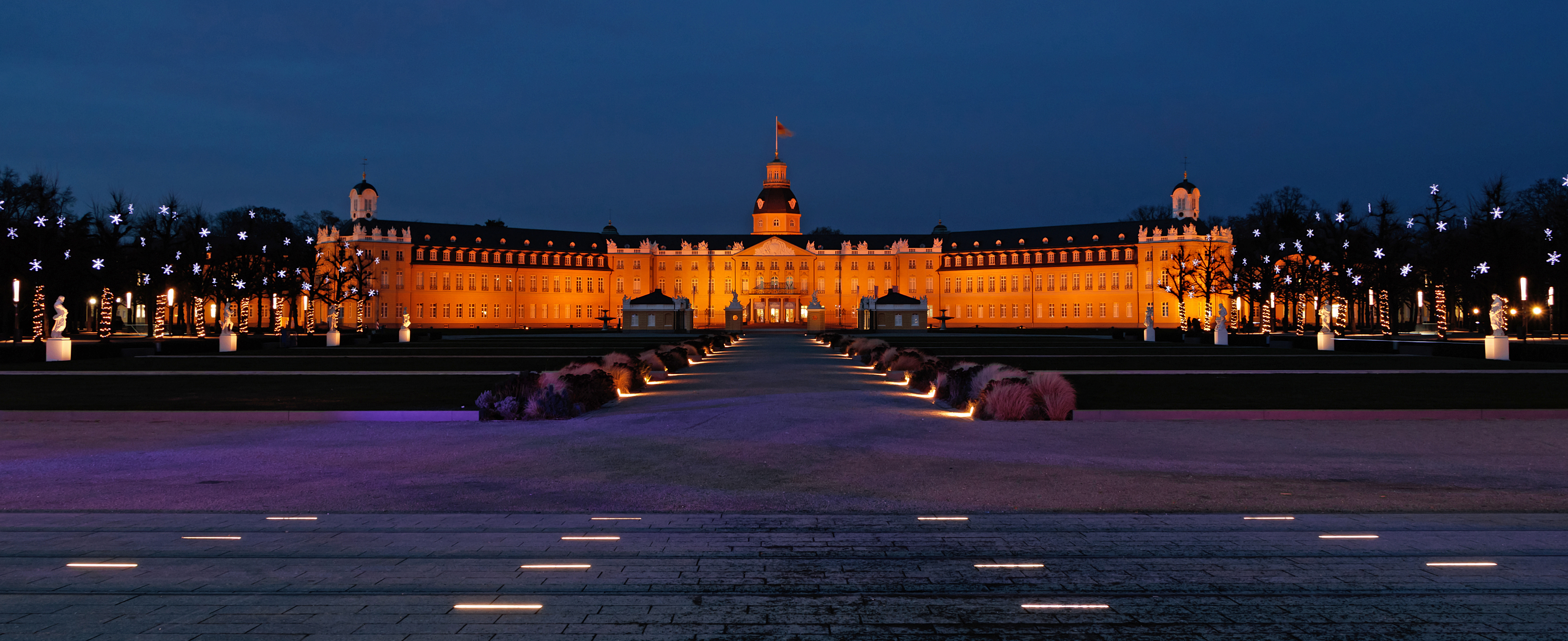 Christmas illumination, Castle square, Karlsruhe, Germany.